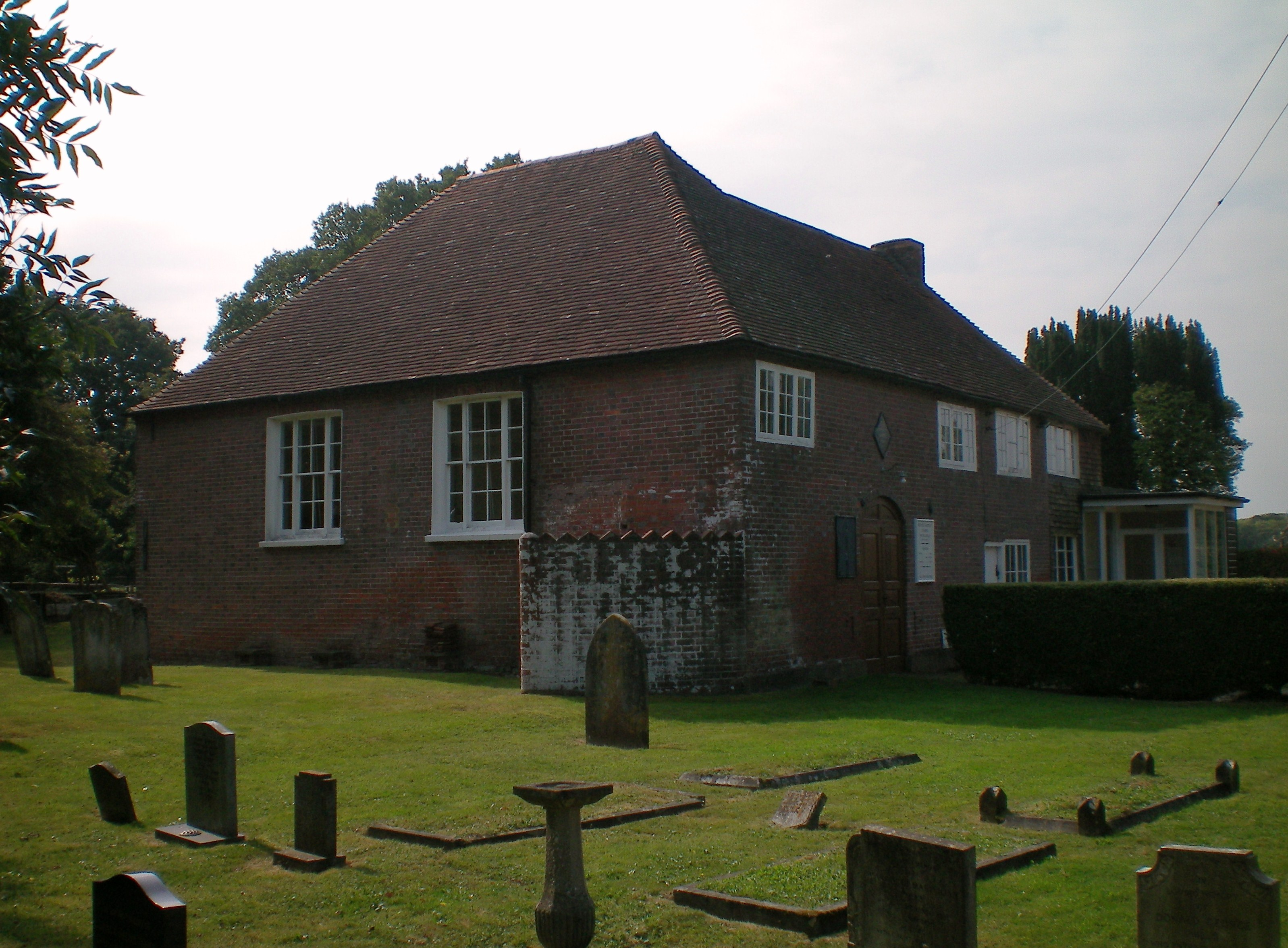 Wivelsfield Strict Baptist Chapel, East Sussex, England.